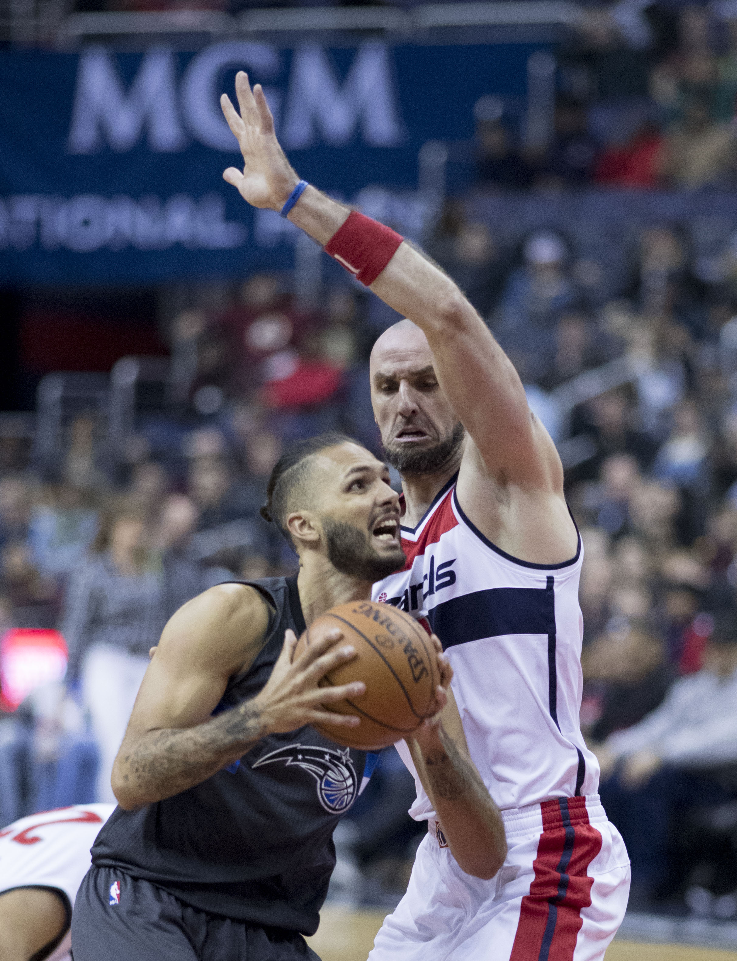 Magic at Wizards 3/5/17